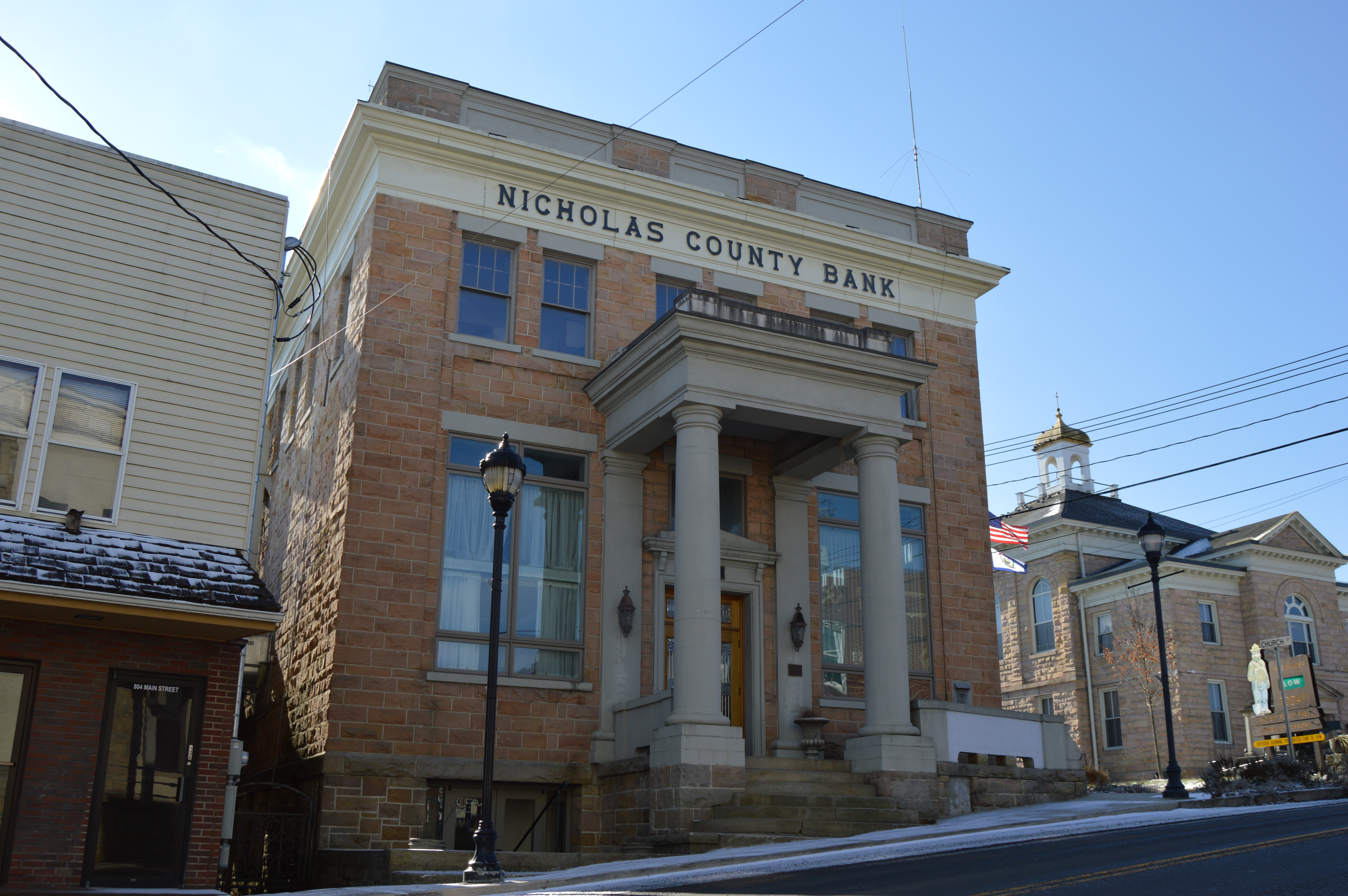 Front and eastern side of the Nicholas County Bank, located at 800 Main Street (West Virginia Route 41) in Summersville, West Virginia, United States. Built in 1923, it is listed on the National Register of Historic Places. The Nicholas County Courthouse is visible at far right.